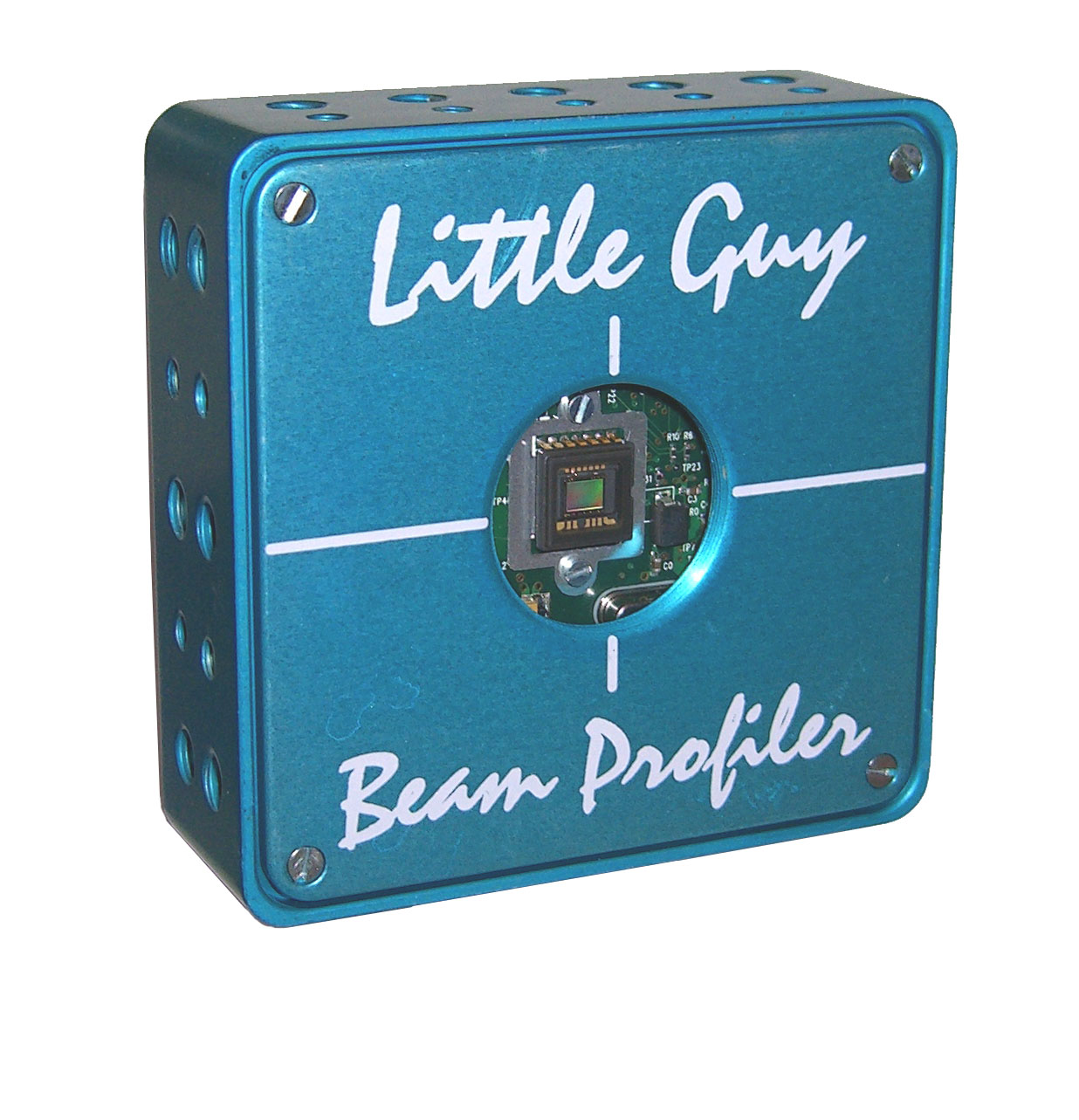 Example of a laser beam profiler